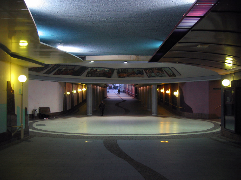 Sampolan alikulku, a passage under the main railroad connecting the city centre to eastern parts of the city.